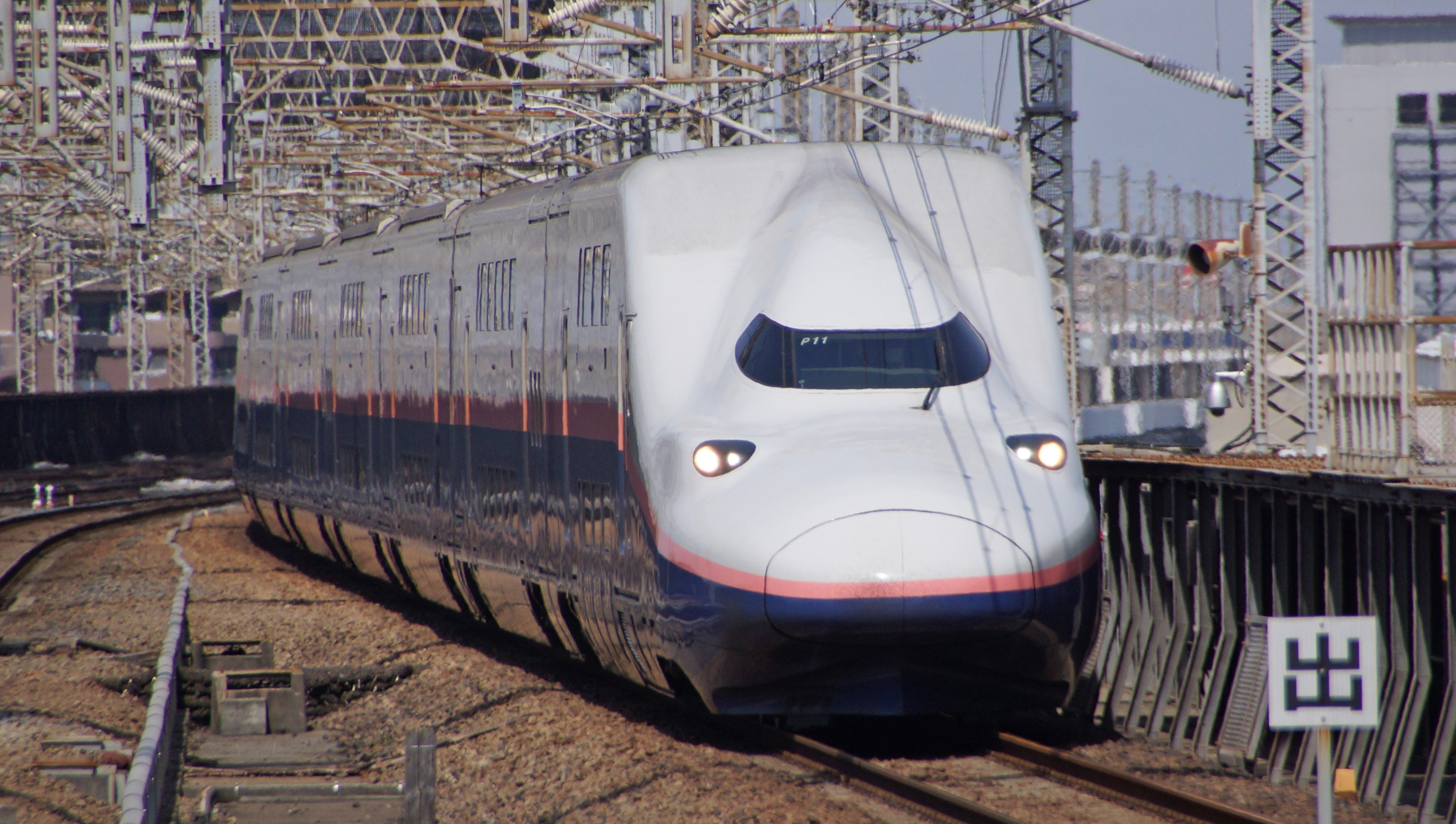 JR East E4 series shinkansen set P11 approaching Omiya Station on the up Max Tanigawa 408 service to Tokyo